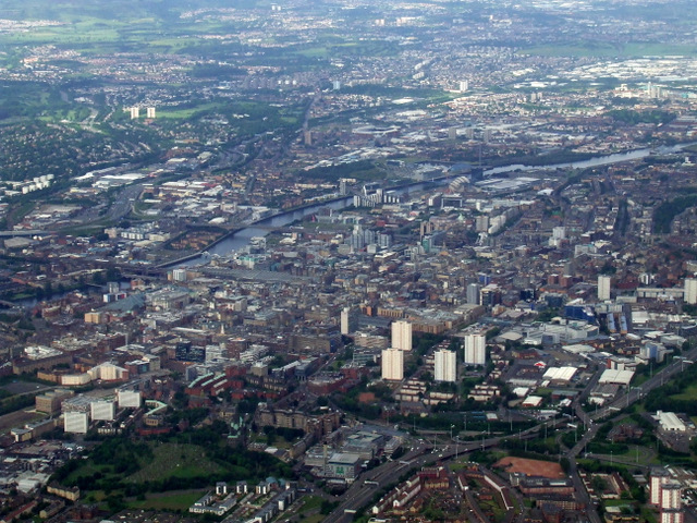 Glasgow from the air